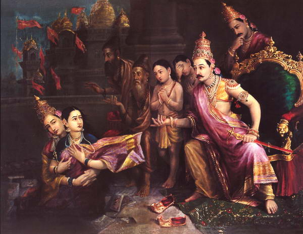 After being rejected by her husband Rama for a second time, Sita is taken into the earth by her mother, the godess Bhumi. Rama, his brother Lakhsman, his two sons, and two sages look on in shock.